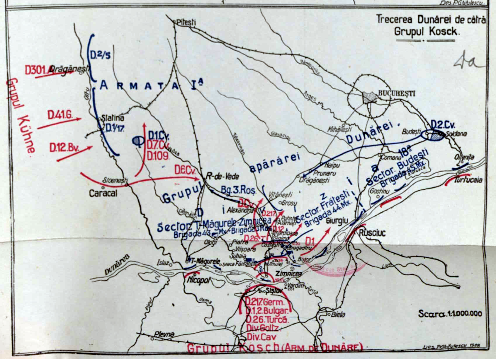 Maps with the crossing of the Danube river by the German forces - 1916